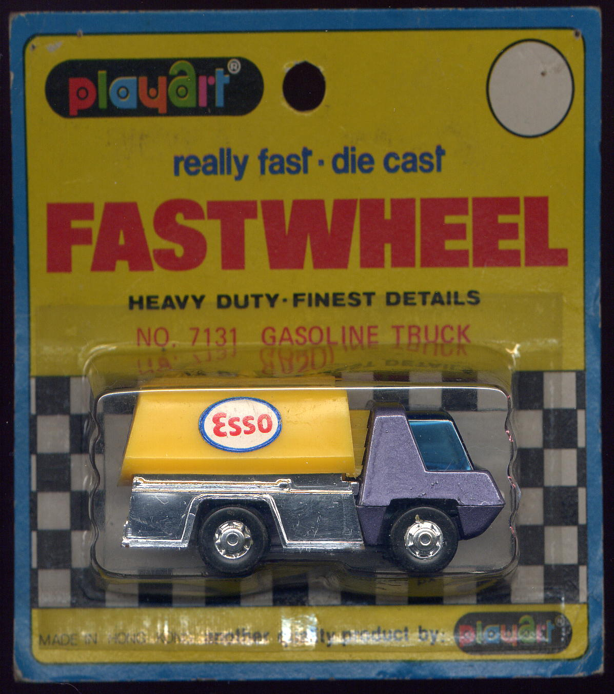 playart 1/64 diecast gasoline truck